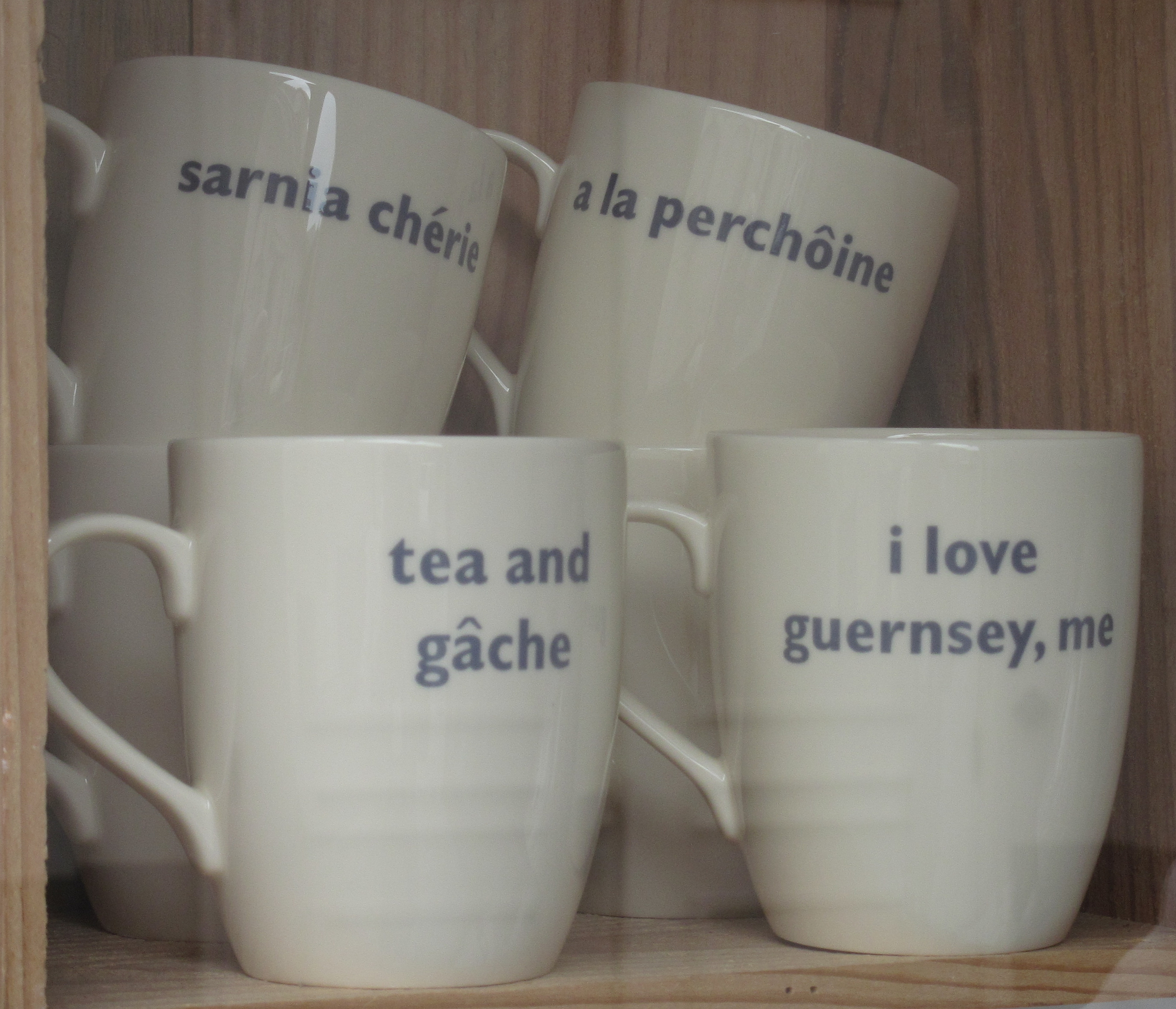 Saint Peter Port, Guernsey Nrf: Saint Pierre Port (Guernési)